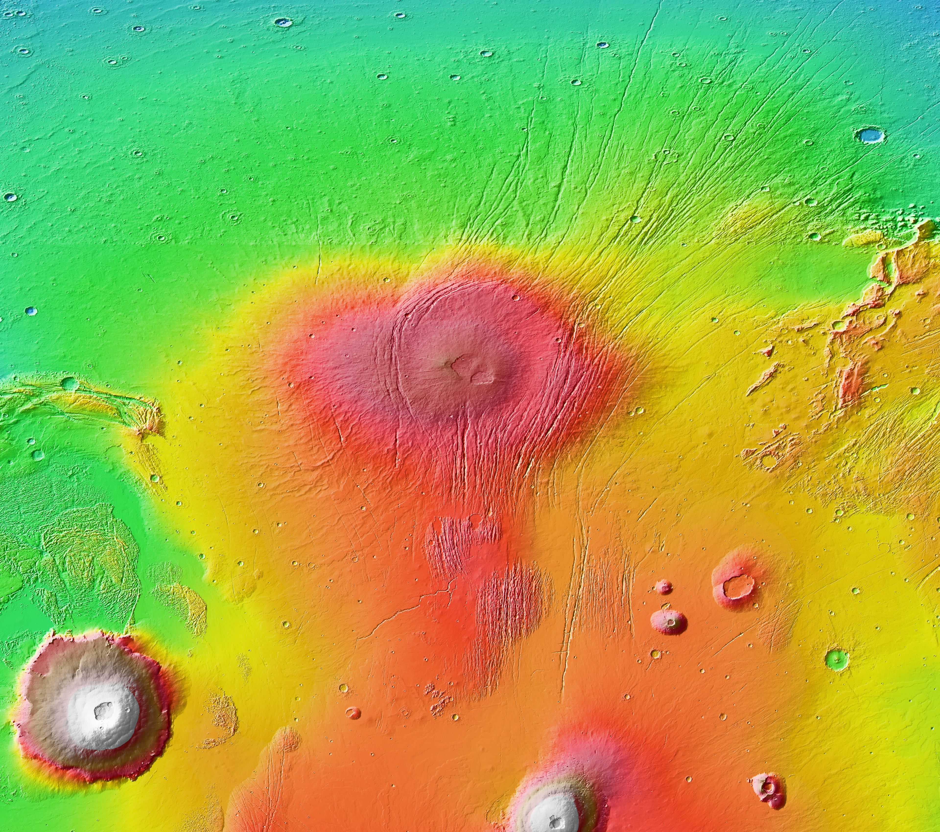 Mars Orbiter Laser Altimeter (MOLA) colorized topographic map of the extremely broad, low-lying volcano Alba Mons in the northern part of the Tharsis volcanic province in the western hemisphere of Mars, together with its surroundings. The taller, more compact volcanoes Olympus Mons and Ascraeus Mons are at lower left and bottom center, respectively.